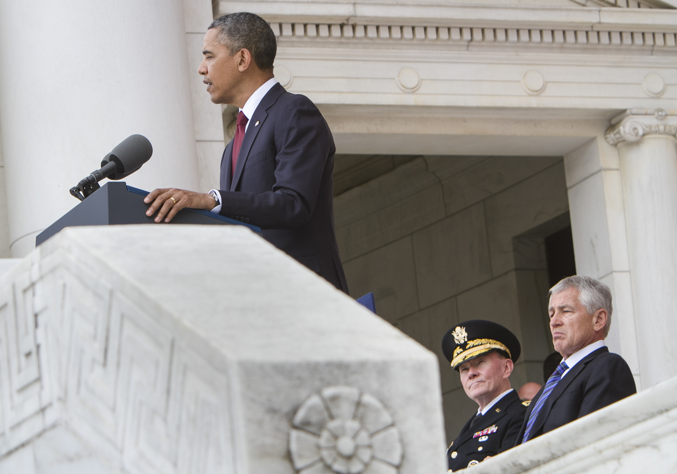 President Barack Obama delivers a Memorial Day address as Secretary of Defense Chuck Hagel, right, and U.S. Army Gen. Martin E. Dempsey, second from right, the chairman of the Joint Chiefs of Staff, listen at the Memorial Amphitheater at Arlington National Cemetery in Arlington, Va., May 27th, 2013.